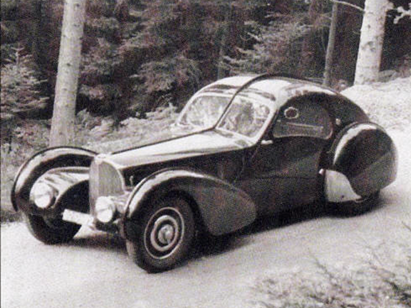 The 1936 Bugatti Type 57SC Atlantic 'Voiture Noire' on a remote road in Alsace, Fance